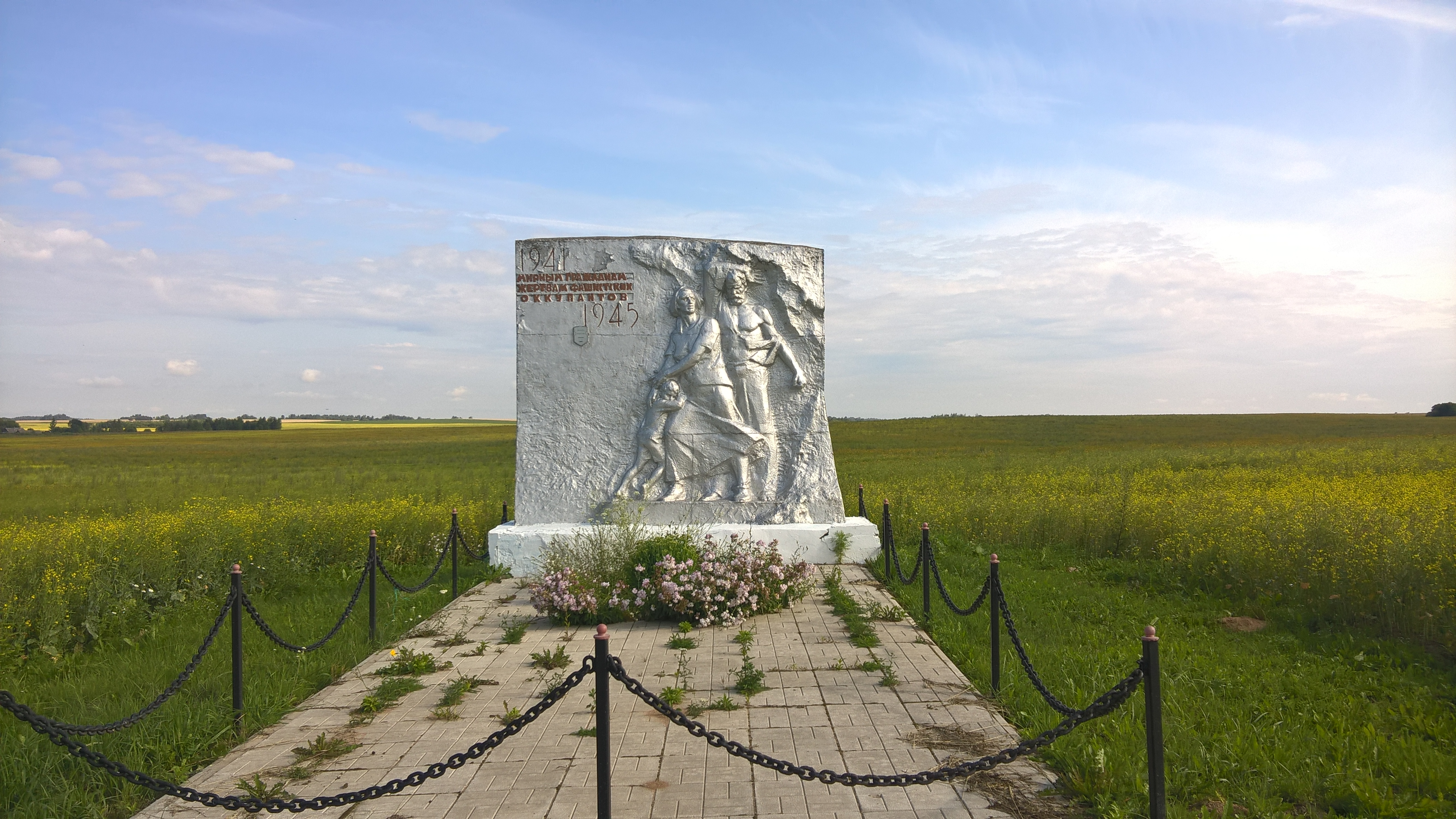 War memorial in village Vialikaja Mićkaŭščyna. 1964 y. Orsha District. Belarus. Беларуская (тарашкевіца): Ваенны мэмарыял у вёсцы Вялікая Міцькаўшчына. 1964 г. Аршанскі раён. Беларусь.